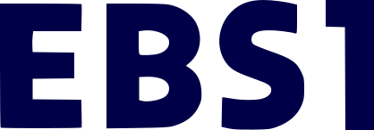 Text logo of Korean Channel EBS 1TV